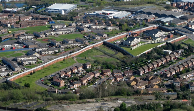 A so-called "Peace Line" in Belfast, separating a Protestant and Catholic neighbourhood from each other. The wall runs the length of the Springmartin Road and is about 18 feet high. The compound at the top of the wall is a police station.